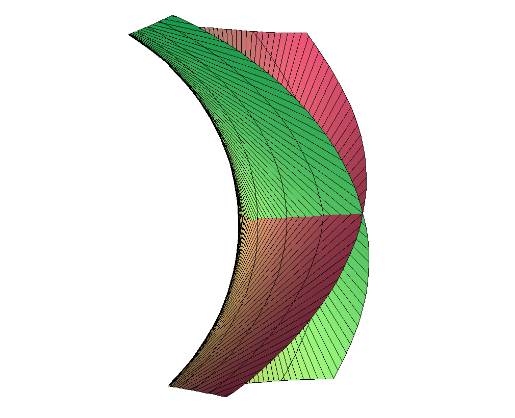 The tangent developable of a curve which has a point with zero torsion. The developable surface contain a self intersection. The curve use is given by ( 0.7 t 2 , 0.8 t 4 , t ) {\displaystyle (0.7t^{2},0.8t^{4},t)} , which has zero torsion at the origin. The software used is SingSurf and [1].